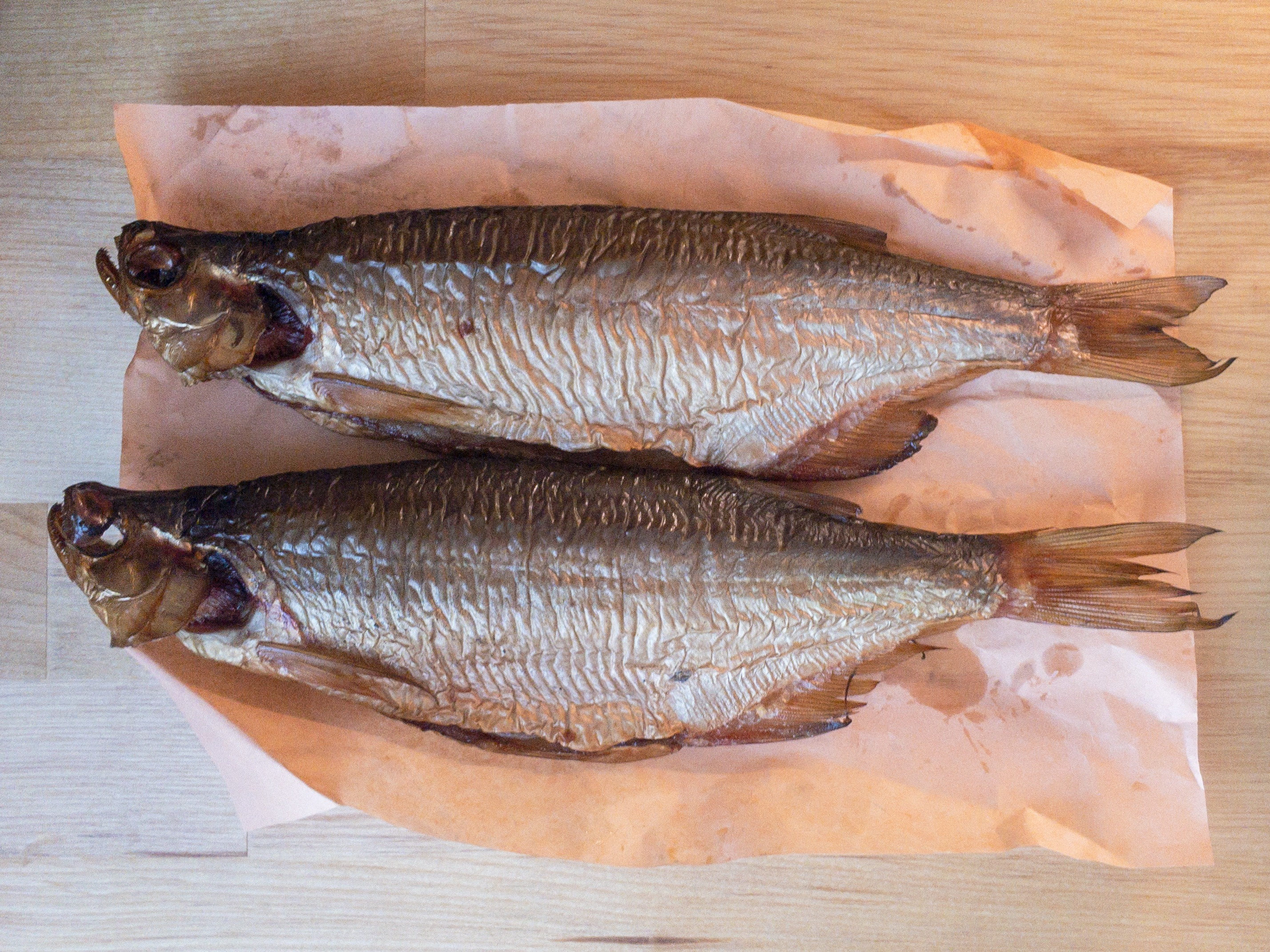 Two smoked Lake Winnipeg goldeye, Hiodon alosoides, purchased from a fisherman-owned business near Winnipeg Beach, Manitoba.